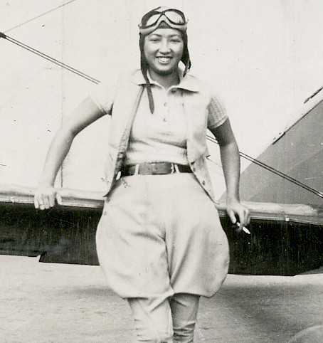 Hazel Ling Yee